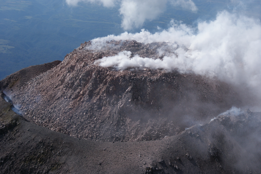 Volcan de Colima crater